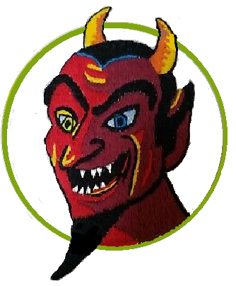 Emblem of the 426th Bombardment Squadron (World War II)